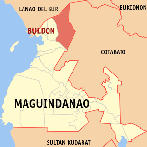 Map of the Maguindanao showing the location of Buldon